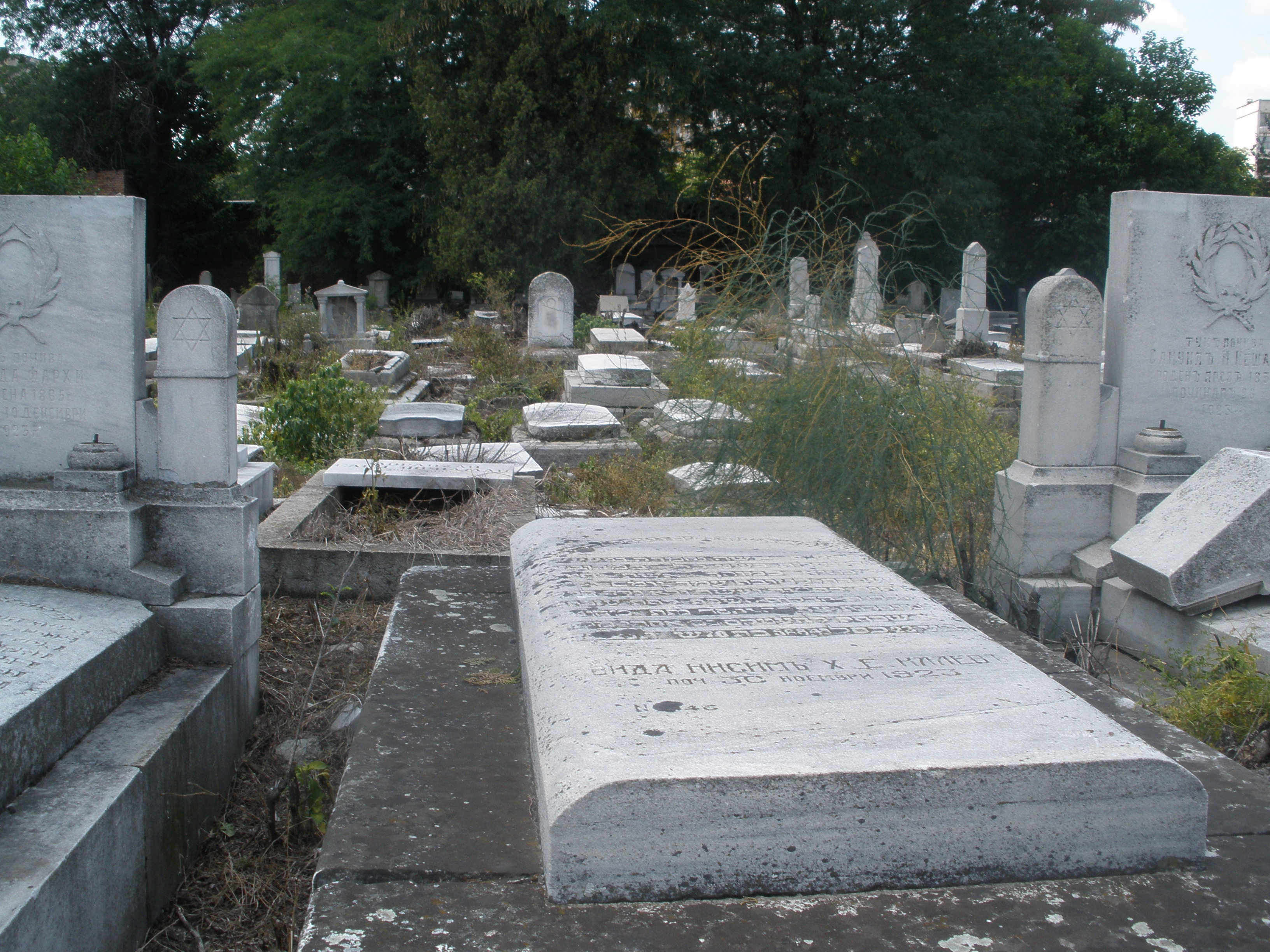 Jewish Cemetery in Plovdiv. Credit: Courtesy of Yossi Nevo .